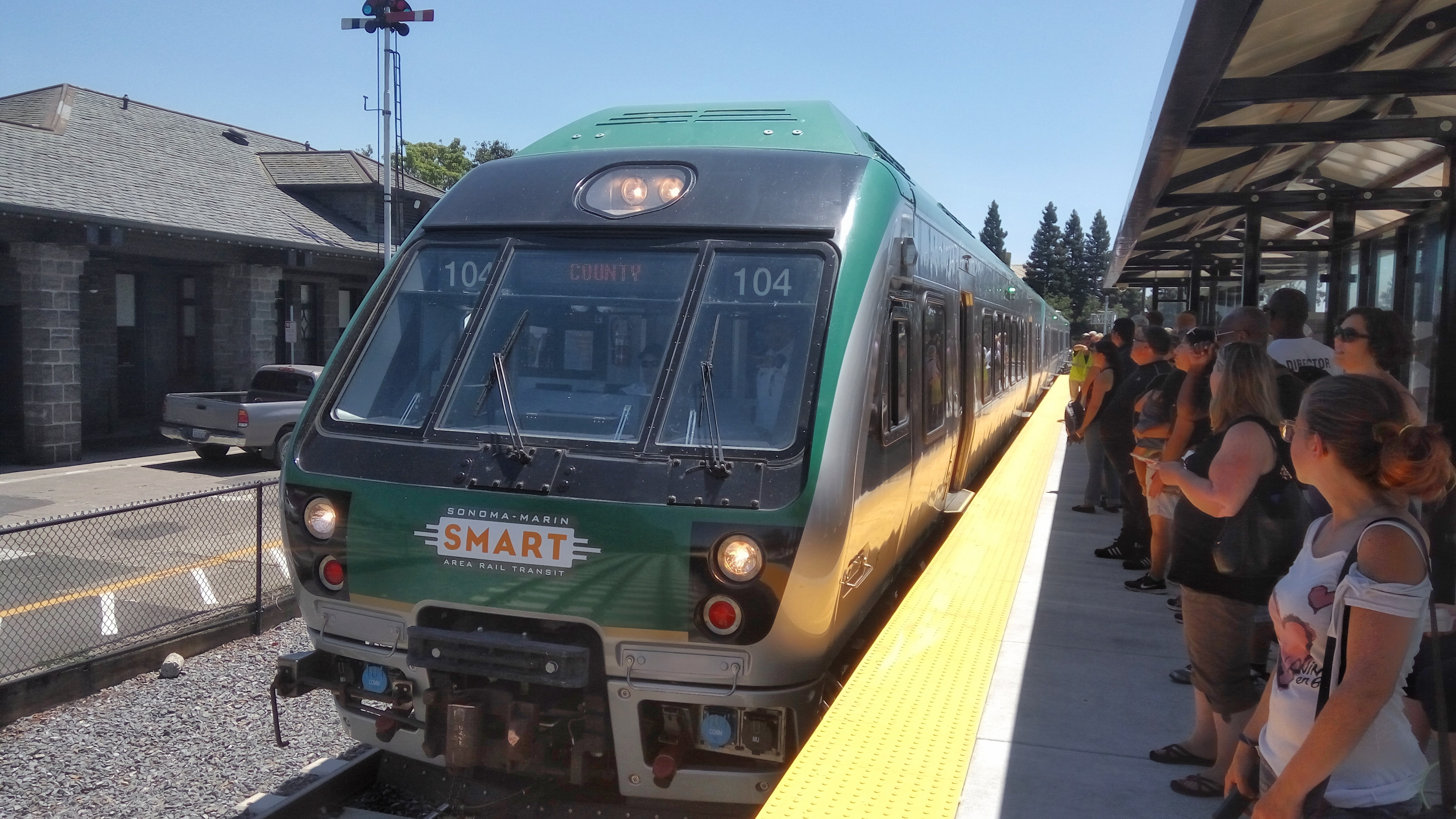 A Smart Train in the Downtown Santa Rosa station during the free ride trial period